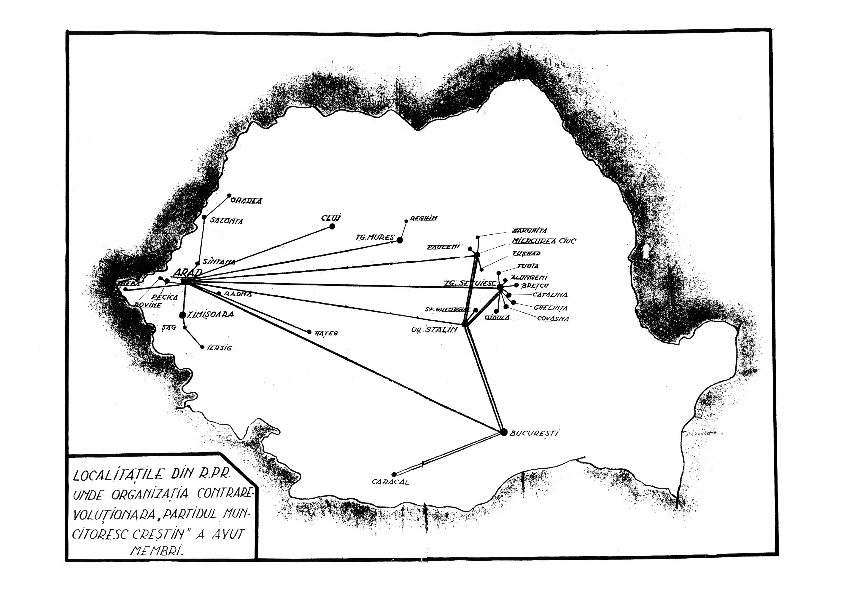 Map about Szoboszlay network